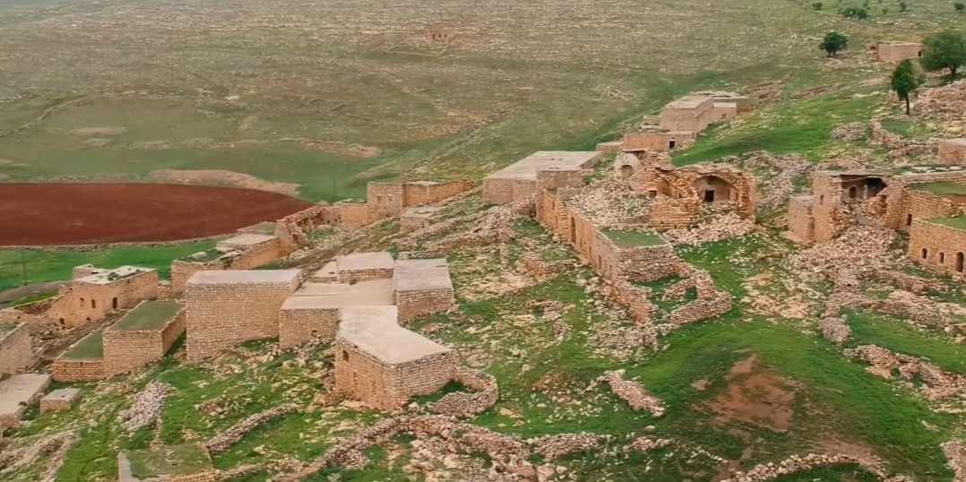 Yazidi village Denwan in Turkey